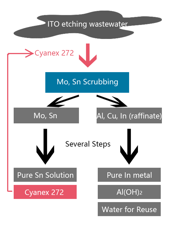 Process of ITO waste-water recycling by Cyanex 272